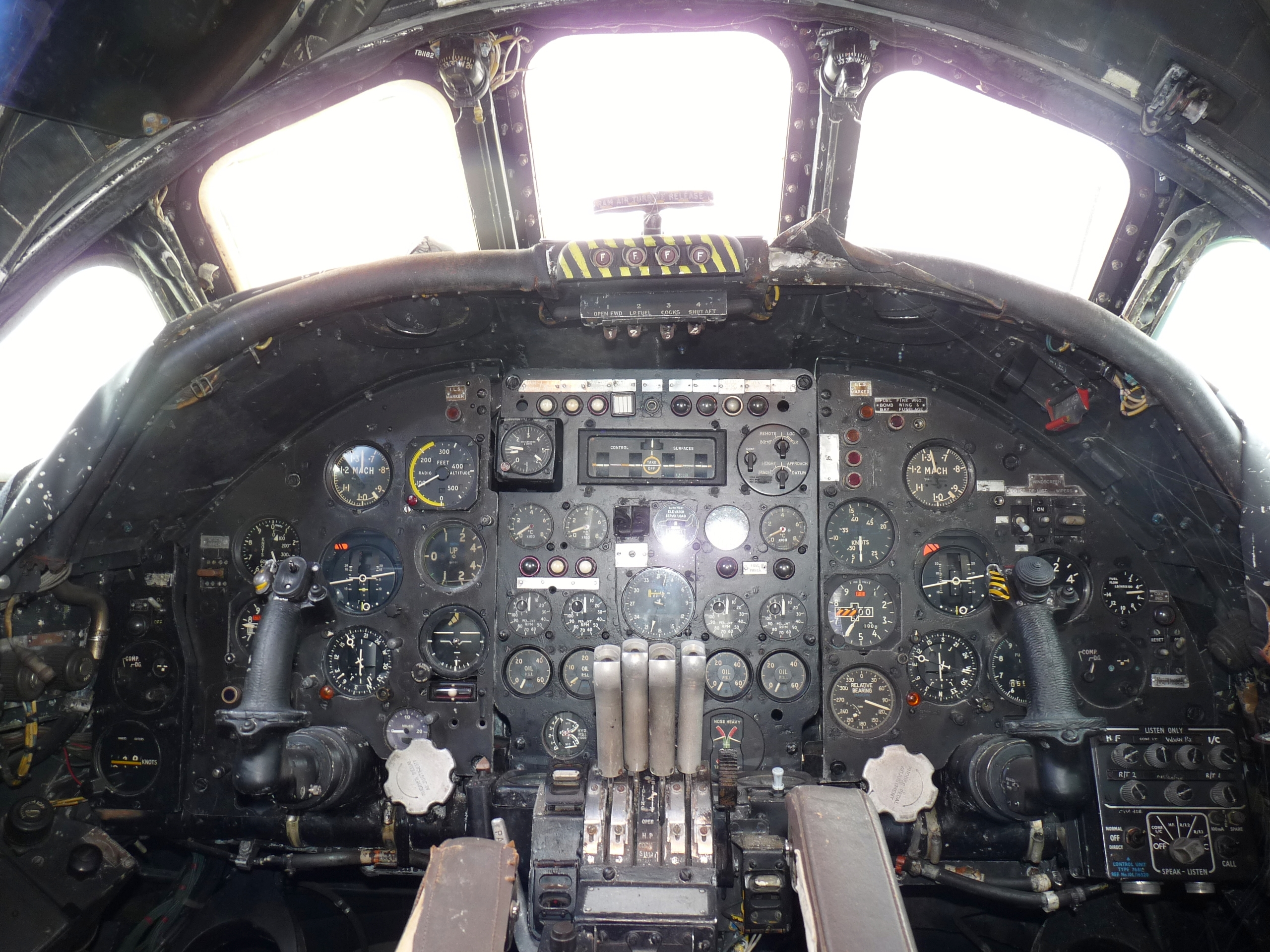 Cockpit of an Avro Vulcan B2 (MRR), exhibited in Bournemouth Aviation Museum